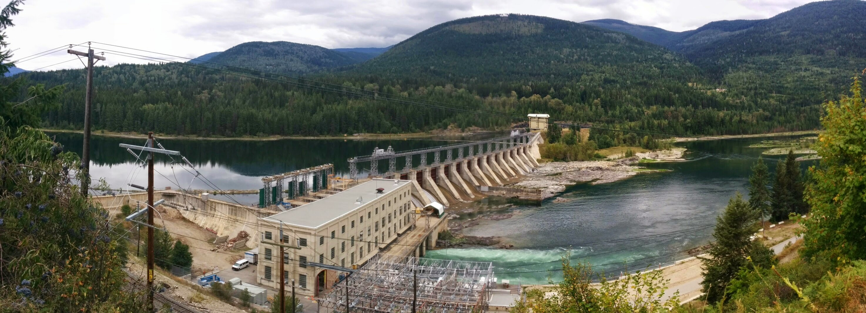 Panoramic view from Corra Linn Road looking south over Corra Linn Dam, September 2, 2014.